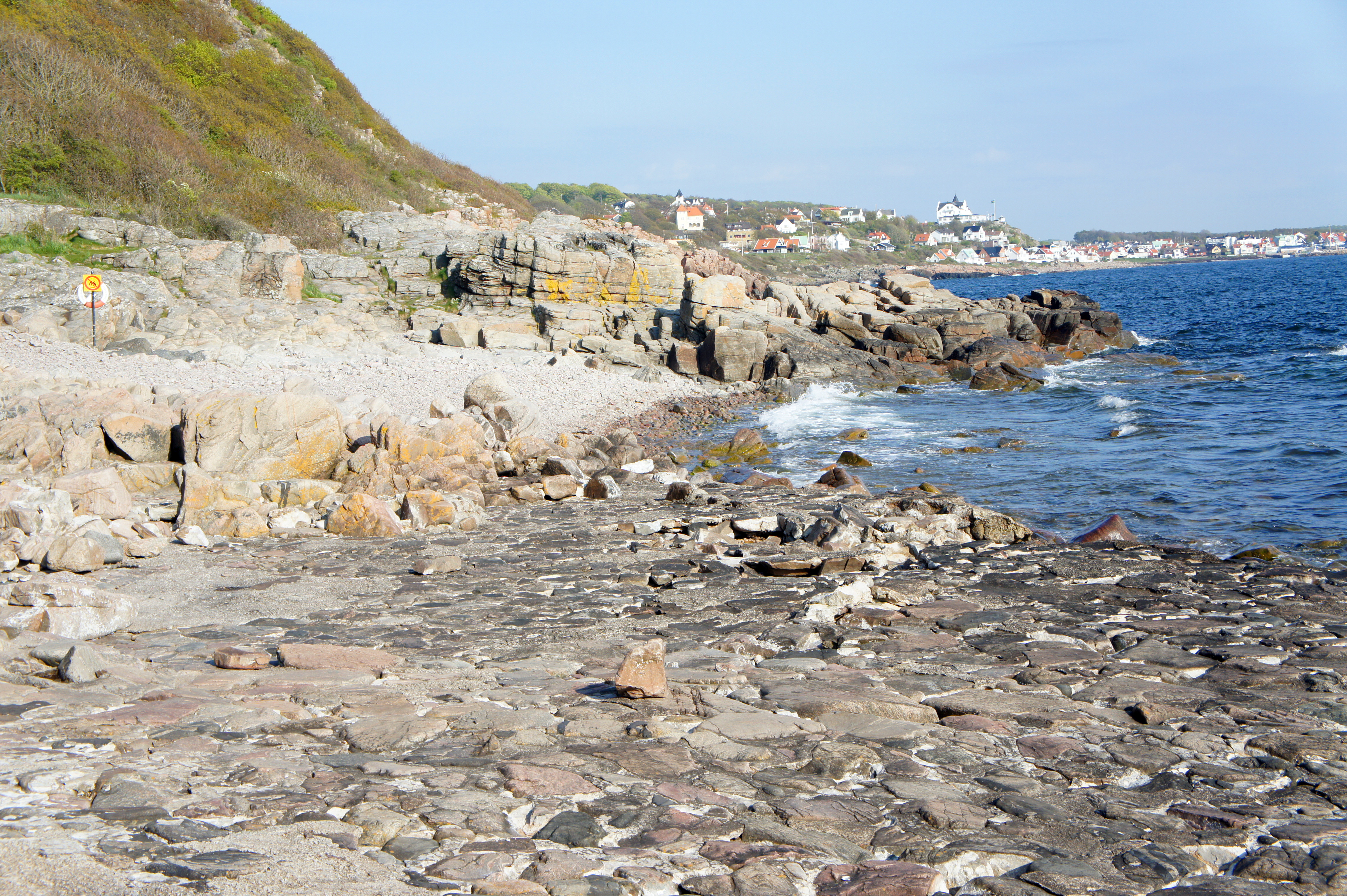 The beach at Ransvik, Mölle, Sweden